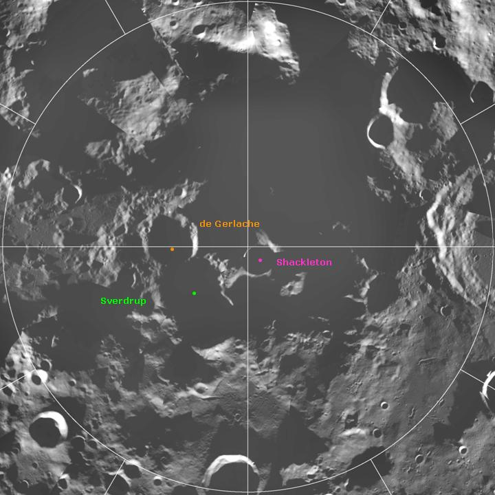 De Gerlache Crater, Shackleton Crater, Sverdrup Crater, Shoemaker Crater, Faustini Crater, Cabeus Crater, Nobile Crater